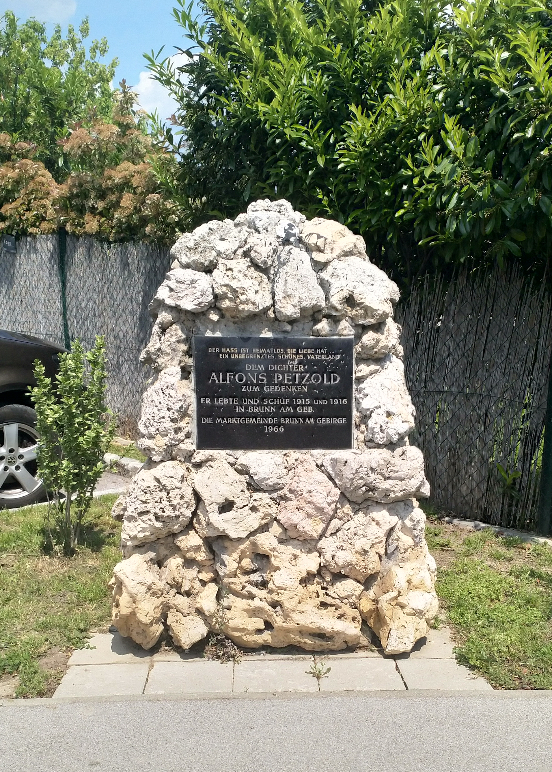 A memorial for the austrian writer Alfons Petzold in Brunn am Gebirge, Lower Austria, Austria